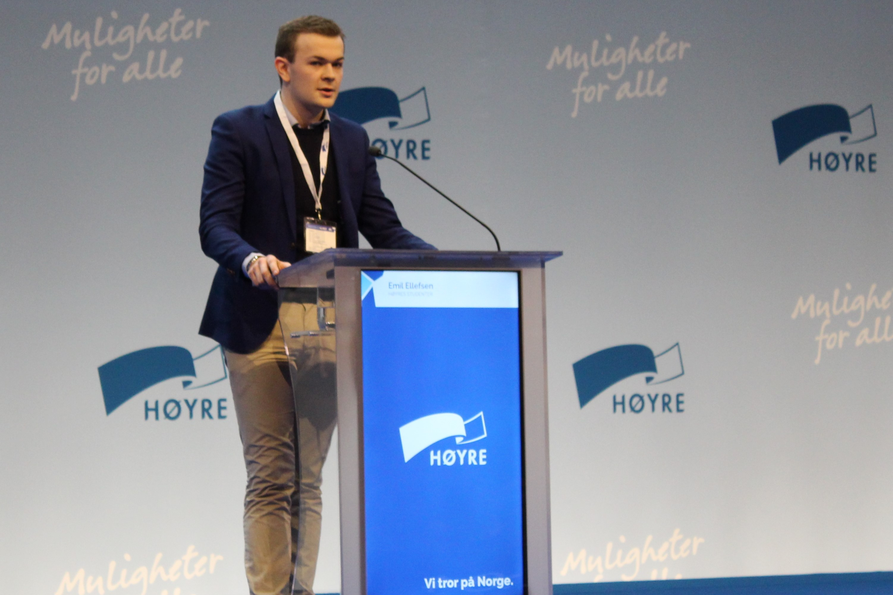 Emil Ellefsen, chairman of the Student Organization of the Conservative Party of Norway 2016-2017, speaks at the Conservative Party Conference 2017.